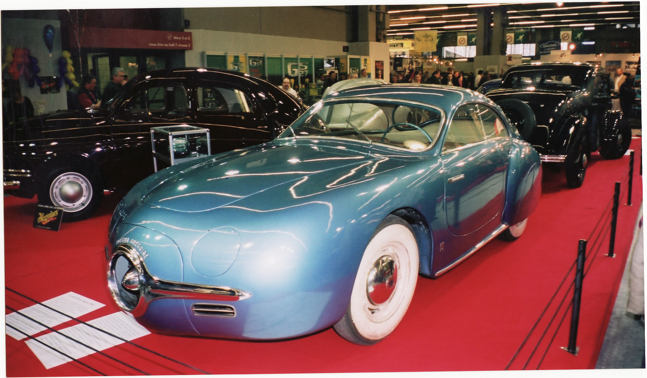 Spotted at Retromobile 2005